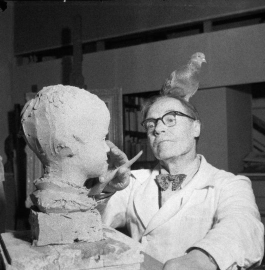 Photograph of the Finnish sculptor Aarre Aaltonen (1889–1980) at work, with a pet bird on the top of his head.